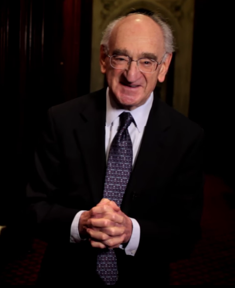 The Right Honourable Simon Haskel, Baron Haskel, giving a video tour of the voting lobbies in the House of Lords.